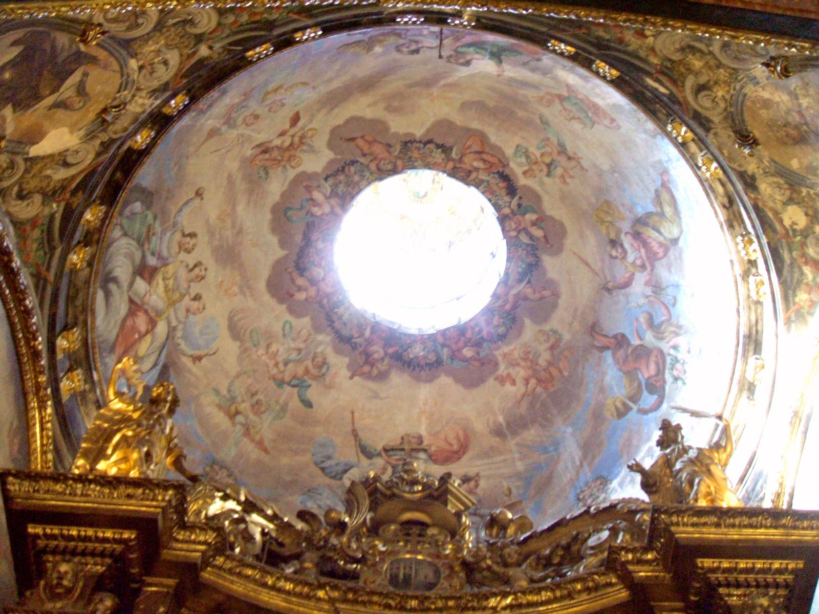 Cúpula de la Capilla de Santiago el Mayor, Catedral del Salvador (La Seo) de Zaragoza (Aragón, España)